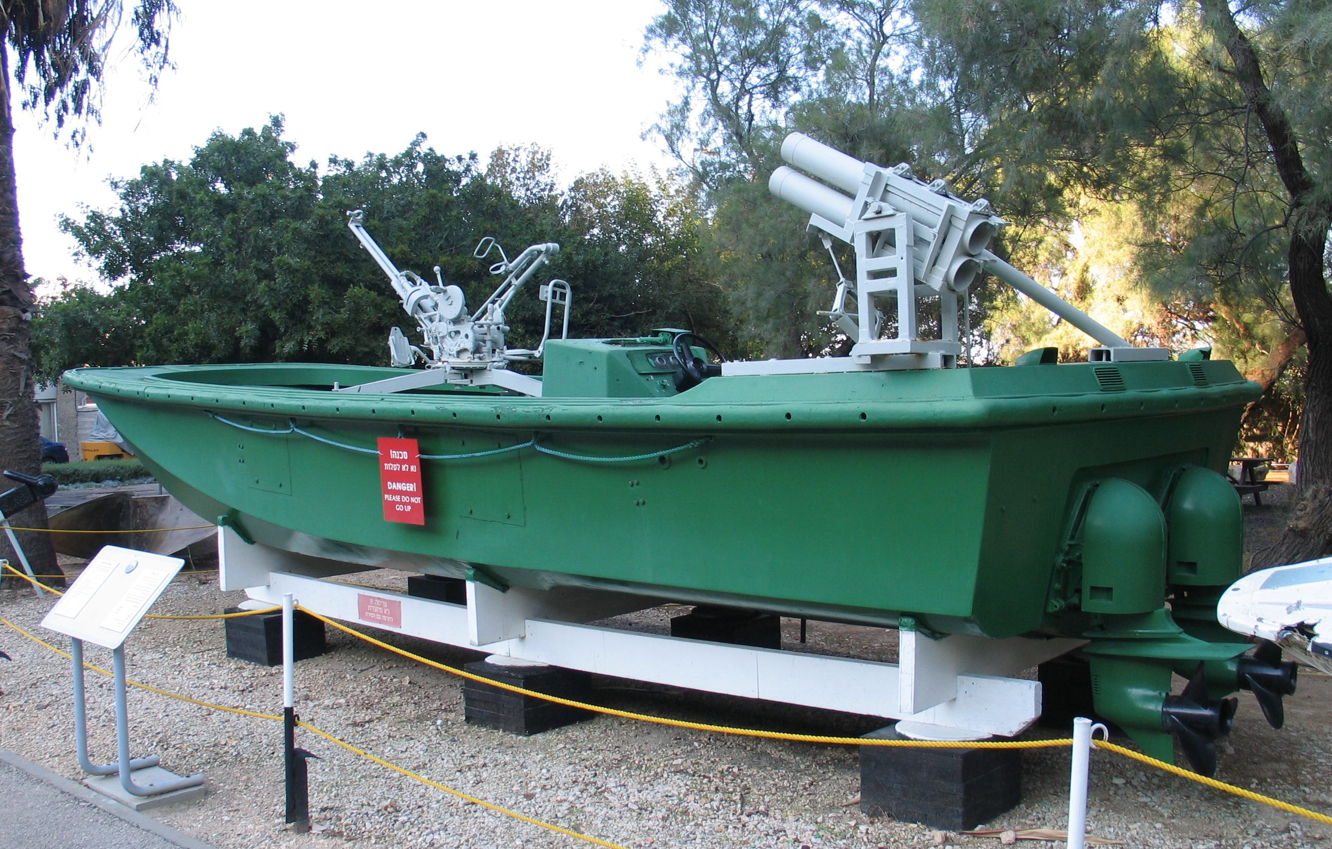 A speed boat (used in a terror attack attempt on 5 May 1990) in the Clandestine Immigration and Naval Museum, Haifa, Israel.